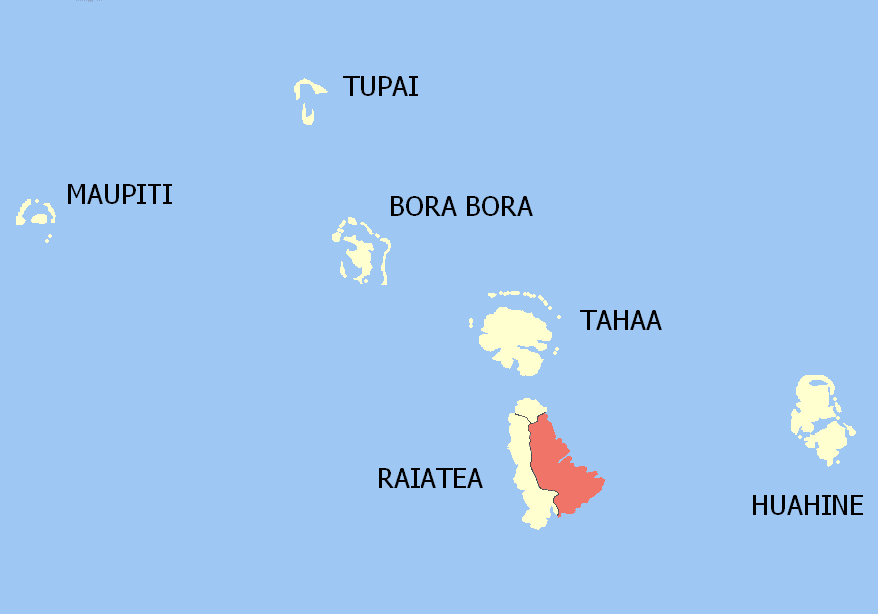 Location of the community of Taputapuatea, Raiatea Island, Society Islands